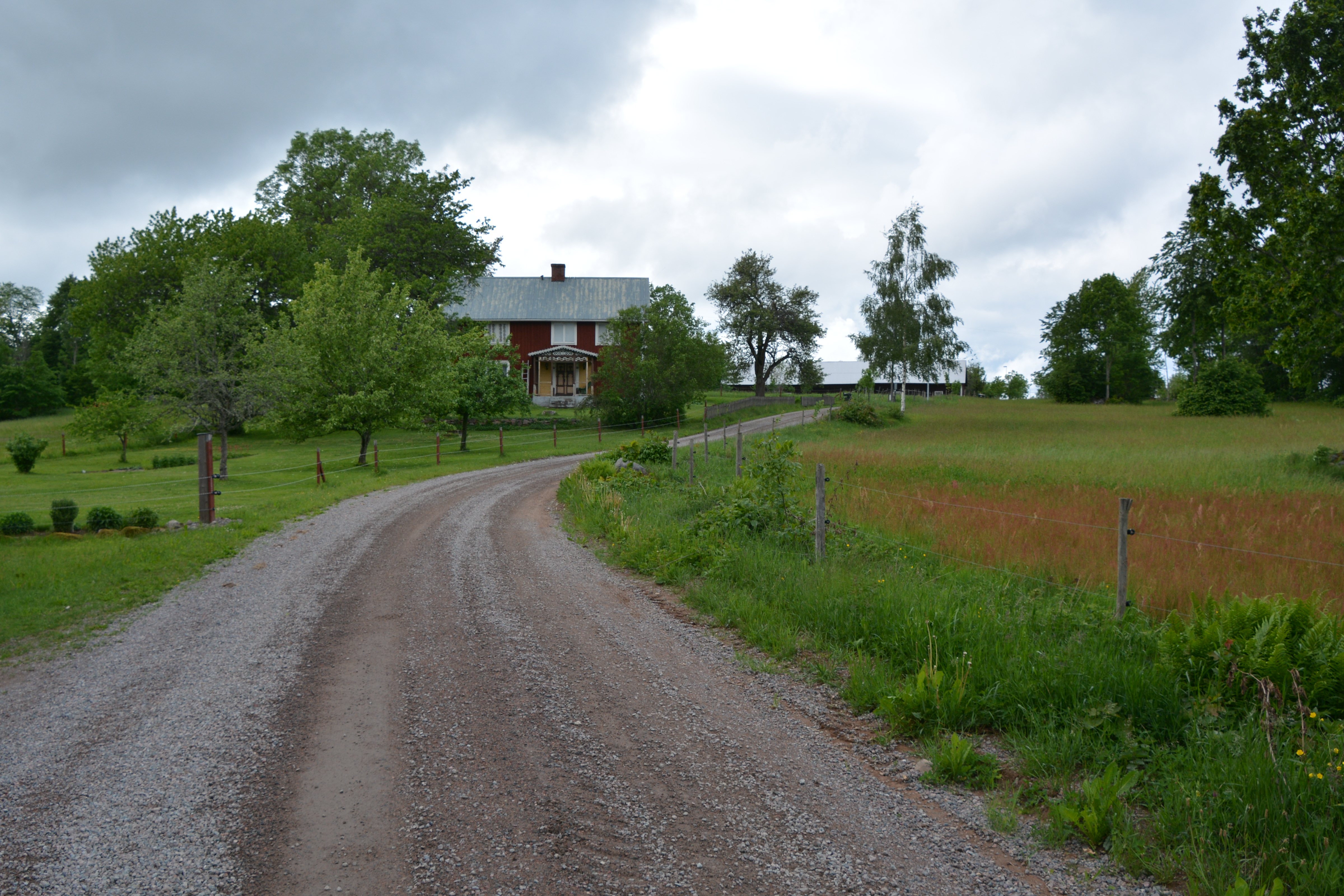 Slättemossa